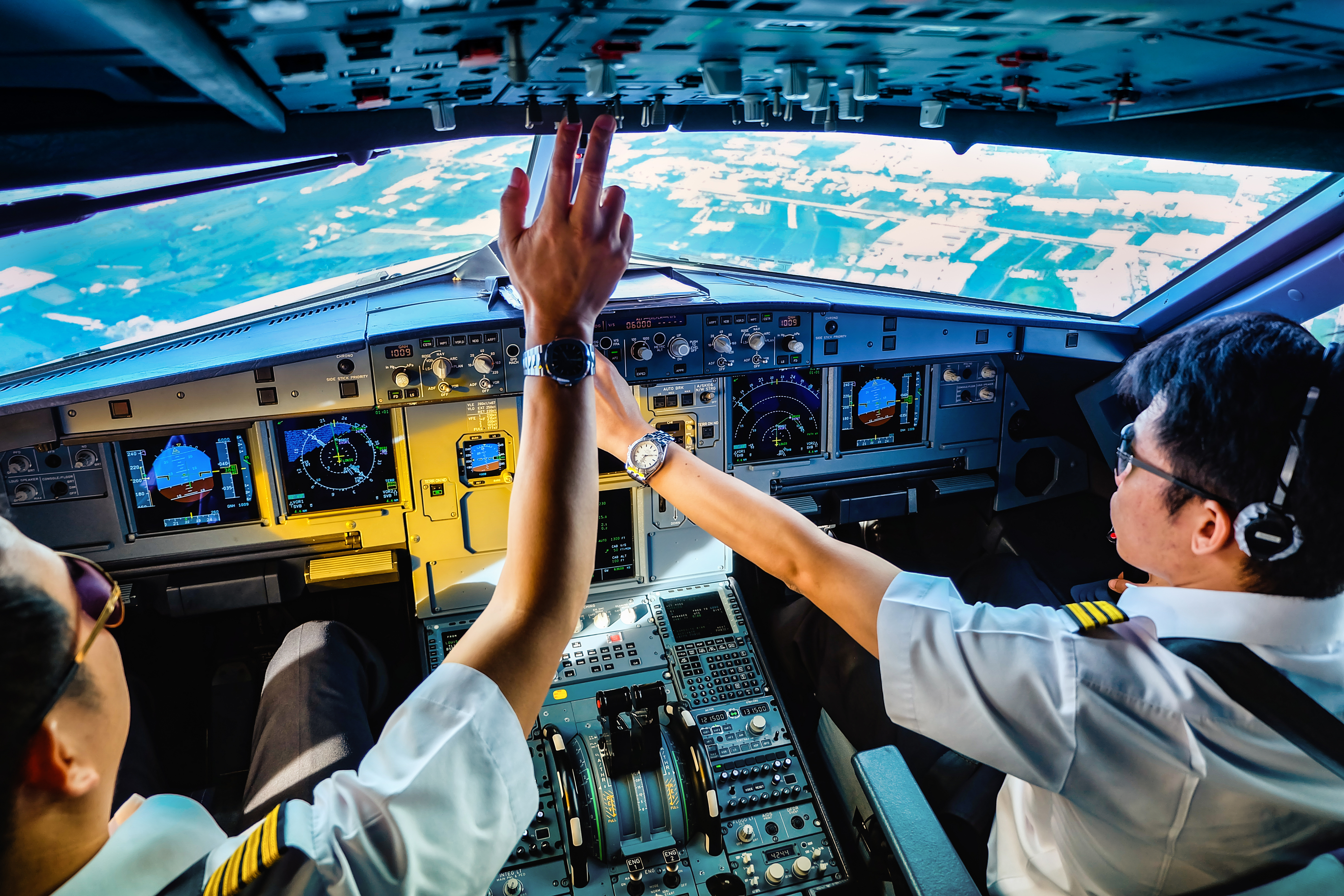 Pilots at work on Thai Smile Airbus A320 (HS-TXH)